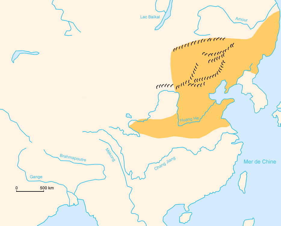 PNG map of the Great Wall : Jin Dynasty (1115 AD - 1234 AD) only. It includes french names.